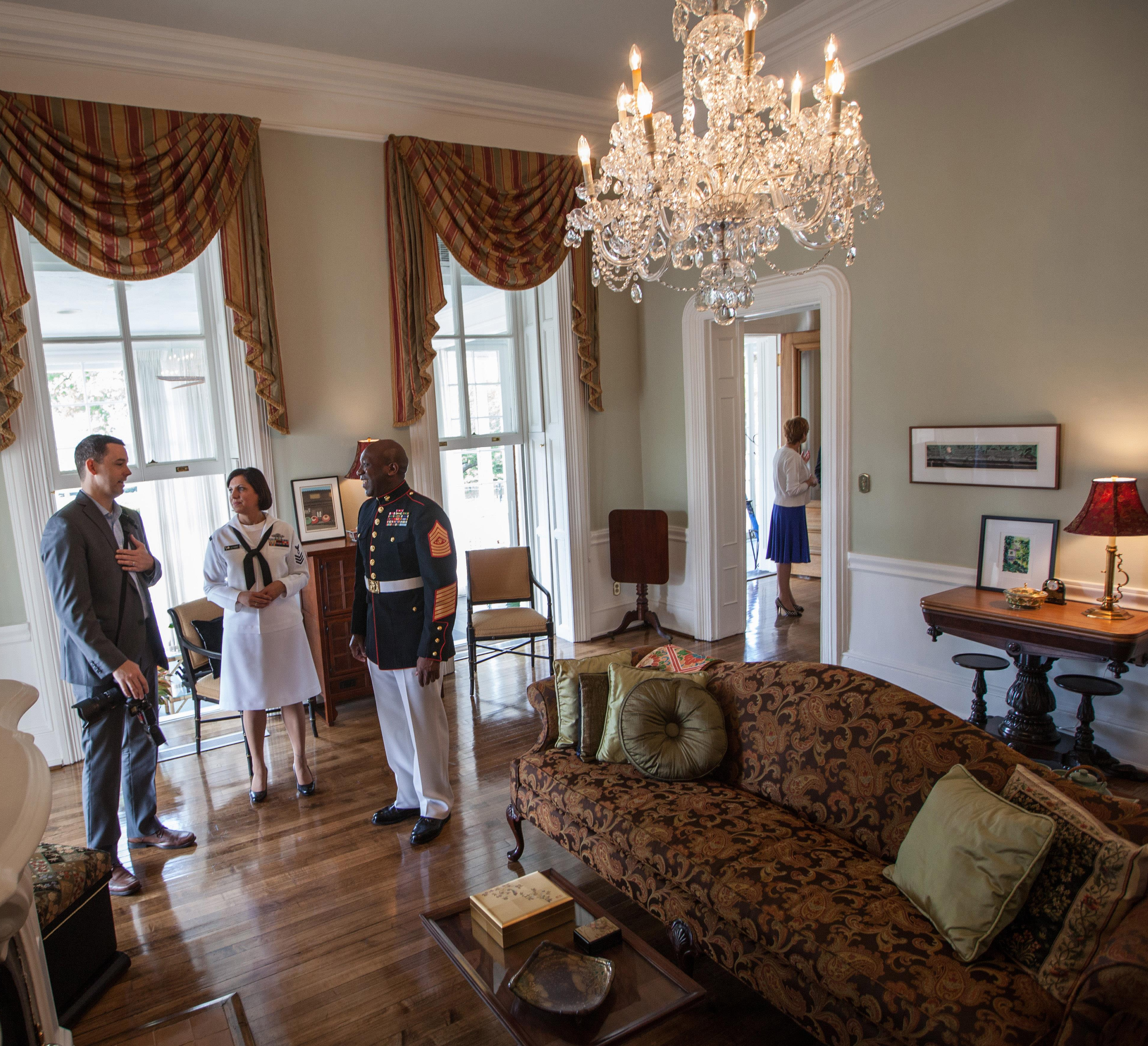 Washington D.C., District of Columbia - Sgt. Maj. Ronald L. Green, the 18th Sergeant Major of the Marine Corps, attends a reception for the 8th annual awards luncheon announcing the 2015 Military Spouse of the Year at the Tingey House, Washington Navy Yard, D.C., May 8, 2015. (U.S. Marine Corps photo by Sgt. Melissa Marnell)